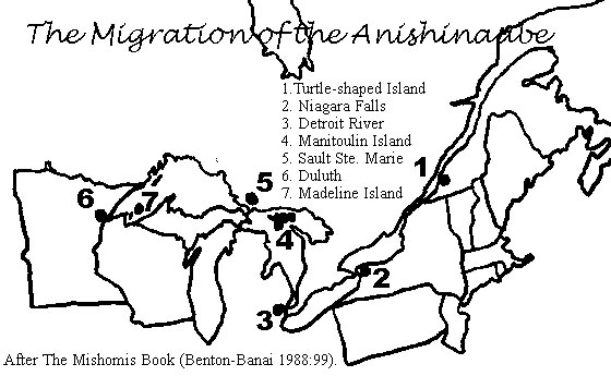 Migration Map, the migration of the Anishinaabeg